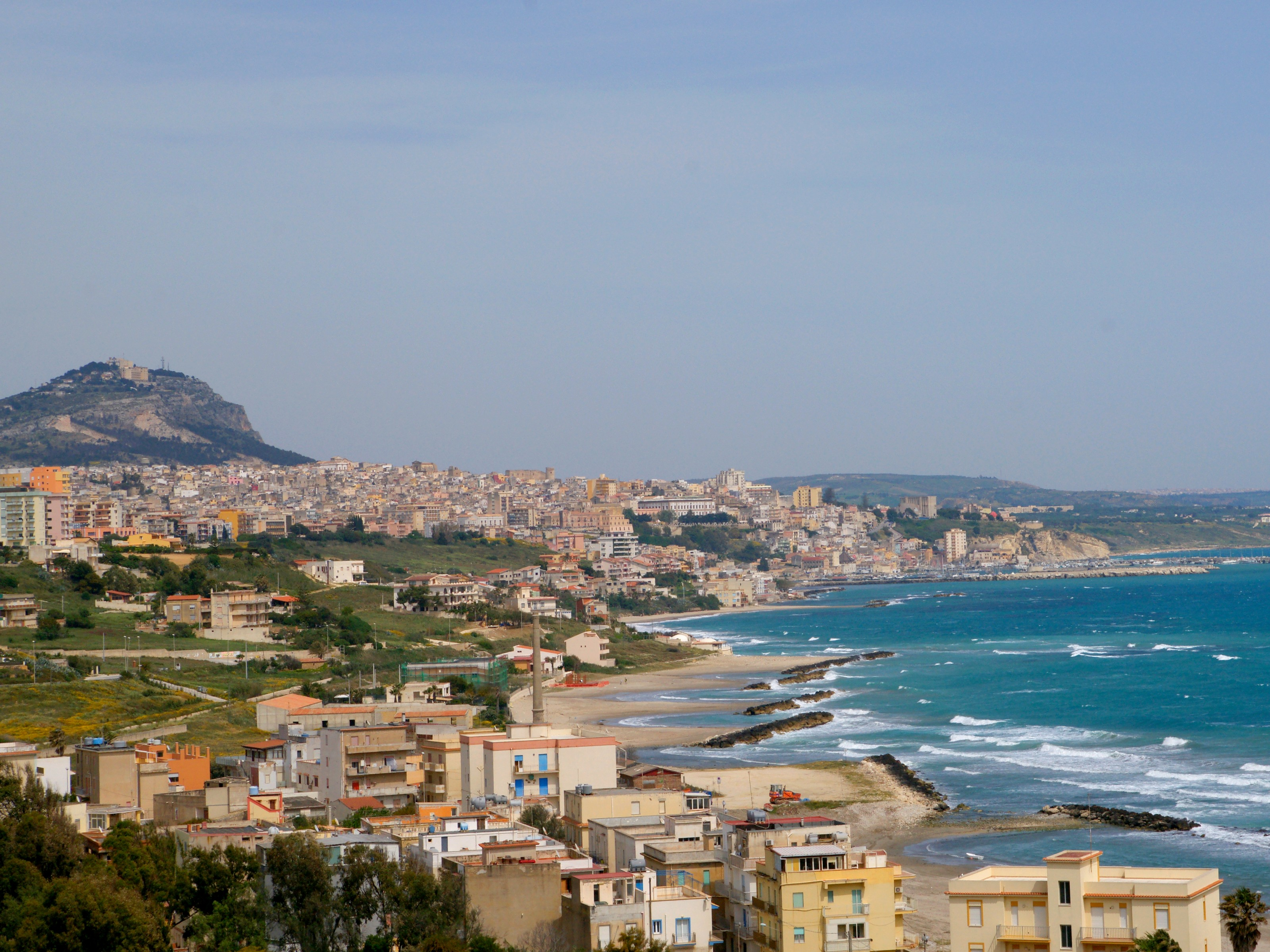 Sciacca